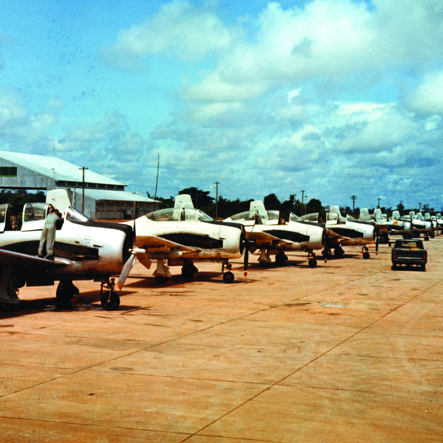 U.S. North American T-28D Nomad COIN-aircraft involed in the fighting in Laos, 1964-1973. U.S. Air Force T-28Ds from the 56th Special Operations Wing from Nakhon Phanom RTAFB took part in "Operation Barrel Roll" a covert interdiction and close air support campaign conducted in the Kingdom of Laos. Others were supplied to the Royal Laotian Air Force under "Project 404" or "Palace Dog" and flown by Laotian and U.S. pilots.